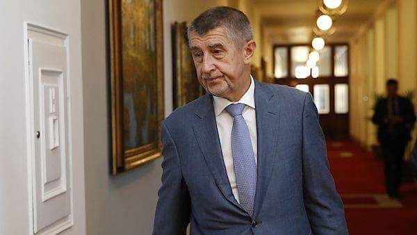 Andrej Babiš, the prime minister of the Czech Republic.